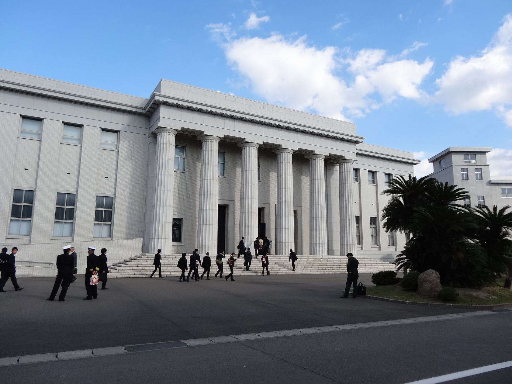 The Japan Naval History Museum (Etajima City, Hiroshima Prefecture, Japan)